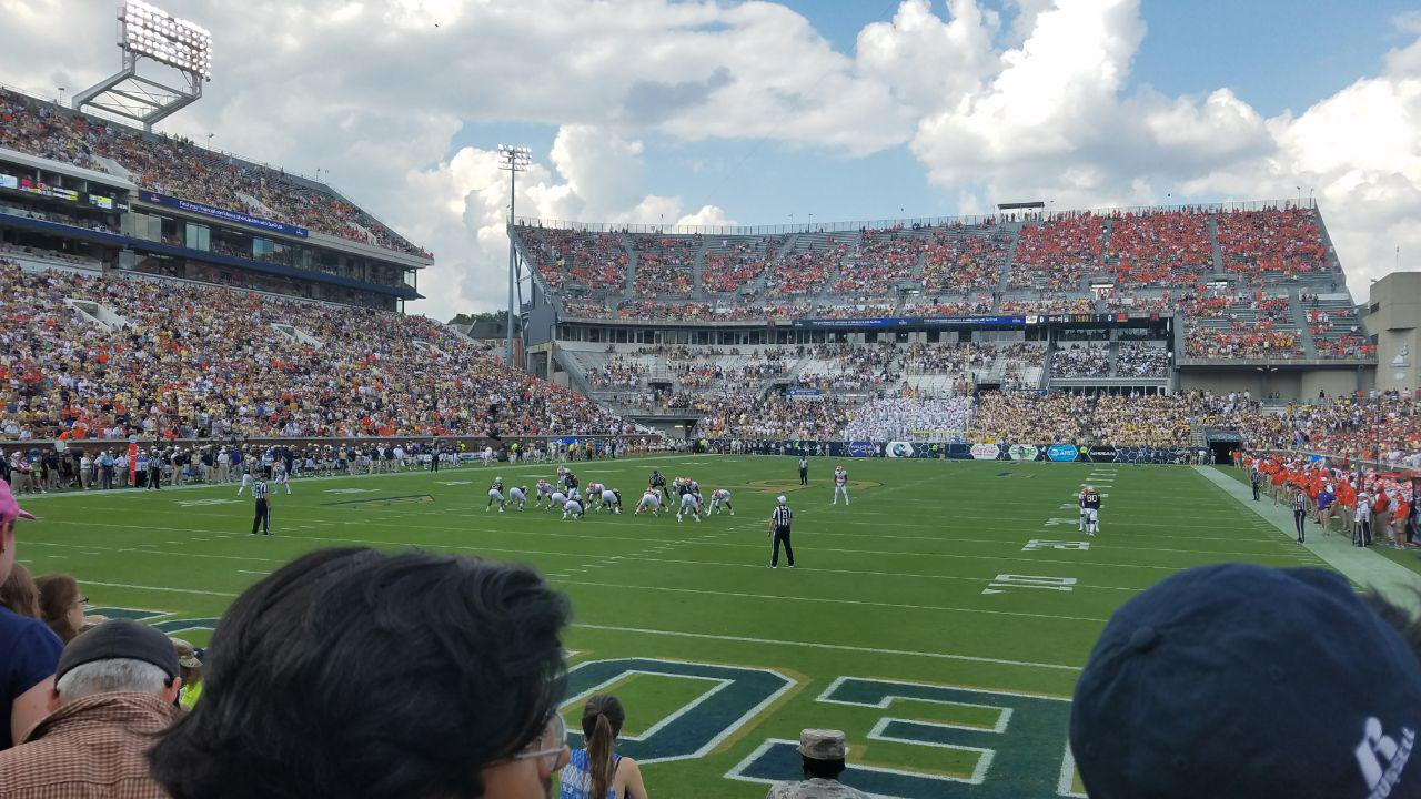 Football game between the Georgia Tech Yellow Jackets and the Clemson Tigers in Bobby Dodd Stadium on the main campus of the Georgia Institute of Technology in Atlanta, Georgia. Picture taken from the south end zone bleachers, facing north.